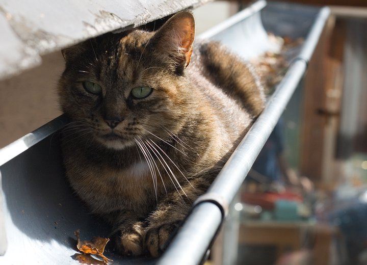 Cat